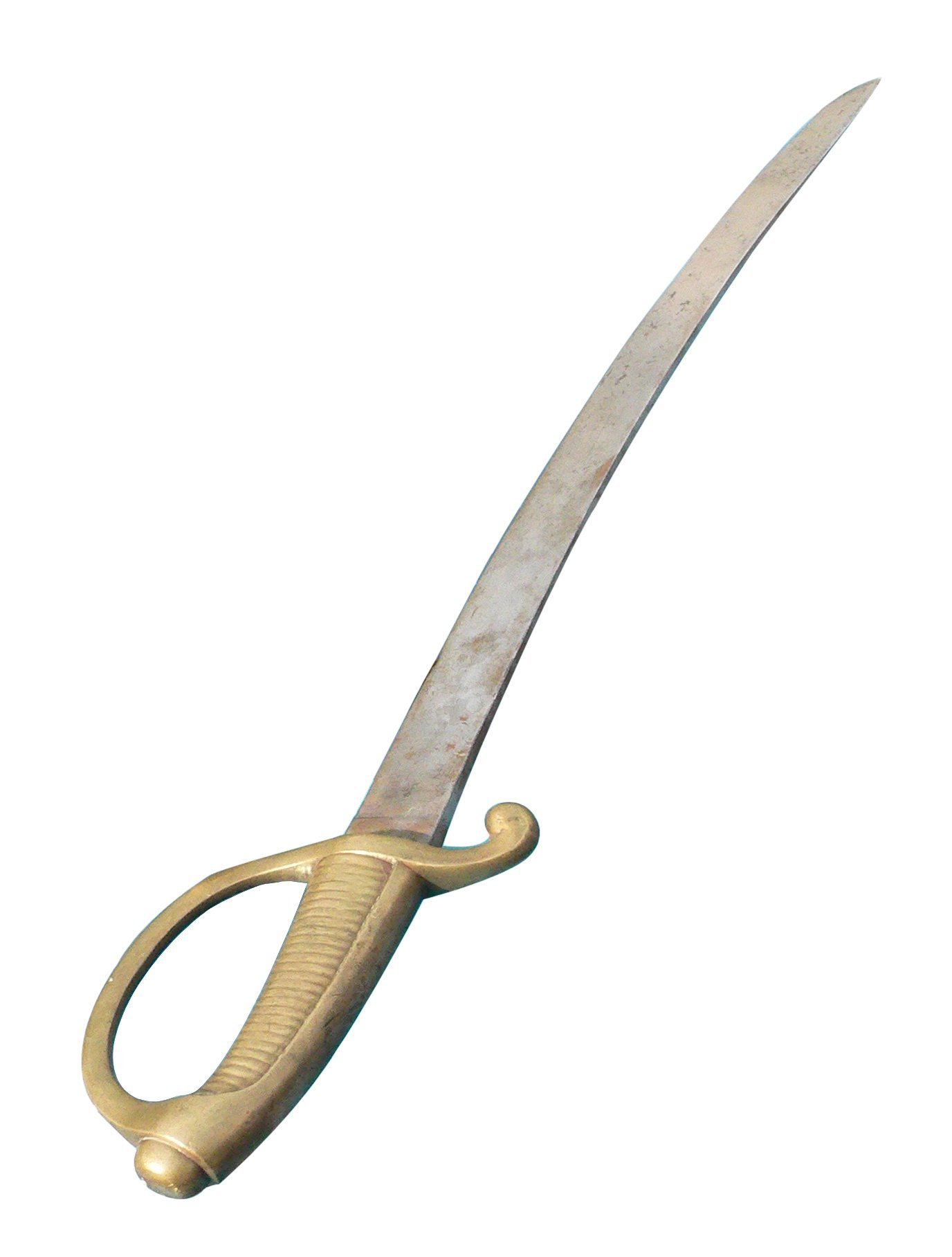 Sabre briquet